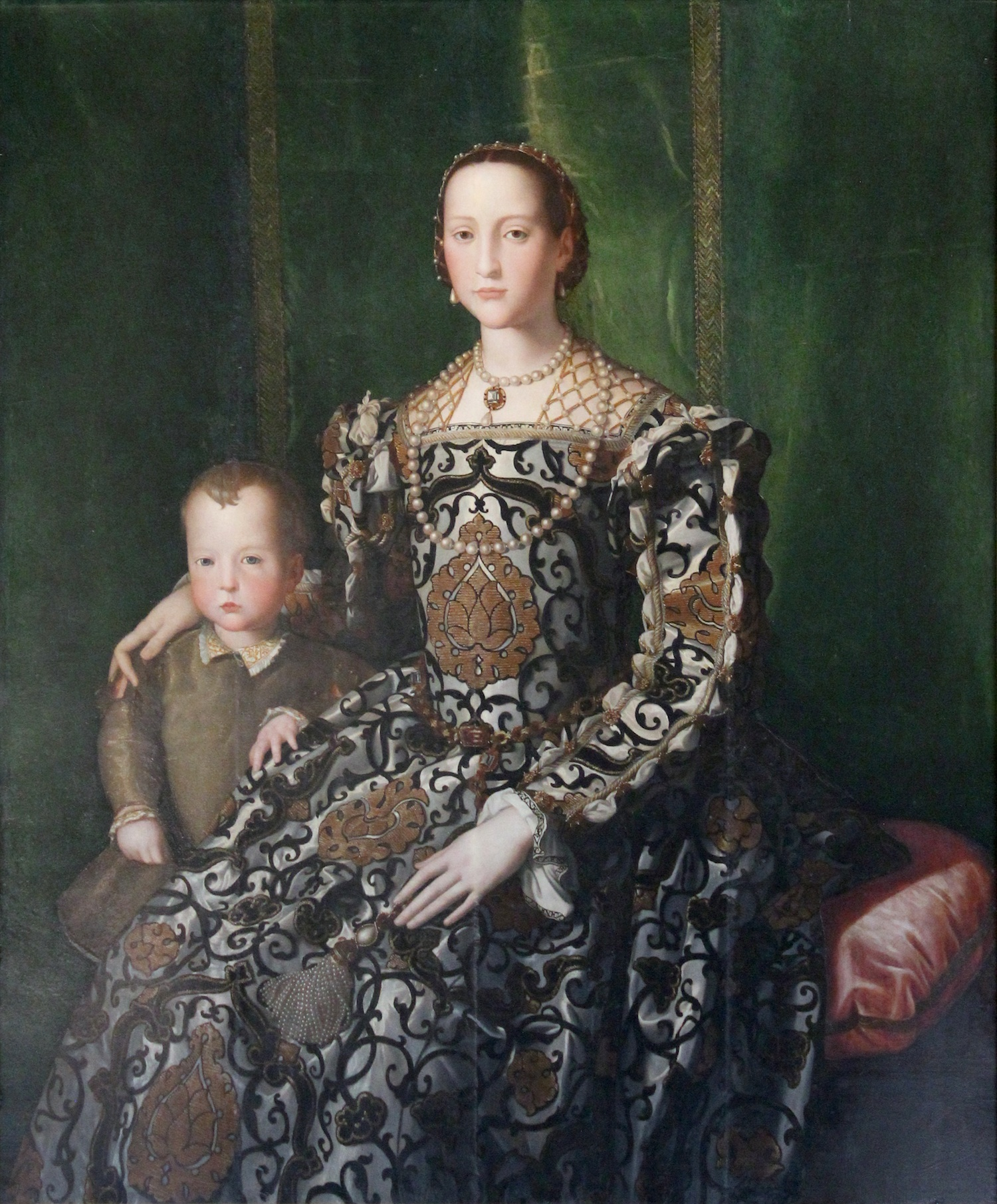 The portrait of Eleonora of Toledo, wife to Cosimo I de' Medici, Grand Duke of Tuscany, is part of the so-called "serie aulica" (or "of the most serene princes"), a collection of portraits of the most important members of the House of Medici. The work, commissioned by Francesco I, Cosimo and Eleonora's son, was payed on 30 March 1584. It's a copy with variation of the Duchess' famous portrait painted by Agnolo Bronzino in 1545. The background changes from a night landscape, painted with precious blue pigment, to a simpler green drape, while the children is not Giovanni but his younger brother Garzia.